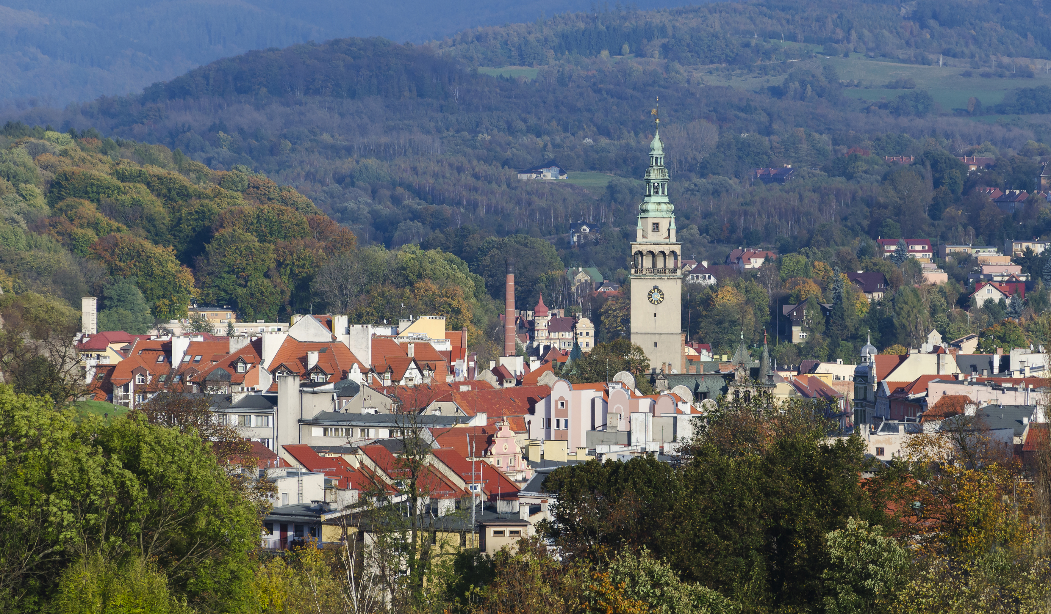 Historic center of Kłodzko